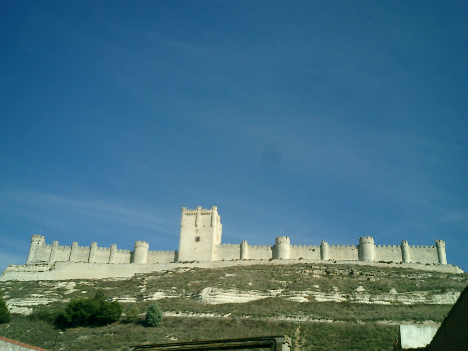 Castillo de Peñafiel, Peñafiel, Valladolid, Spain